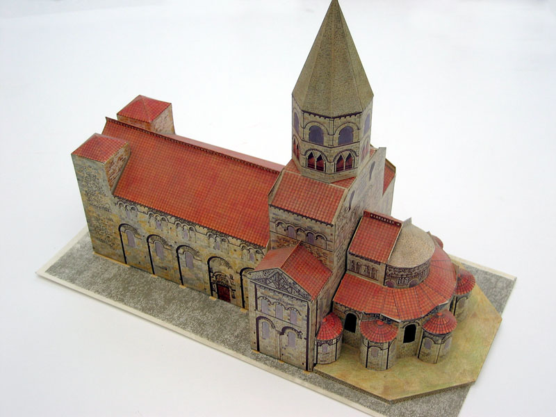 Picture of a french Cardmodel: Notre-Dame du Port roman church - Clermont-Ferrand Tomis edition - 1970 personal picture